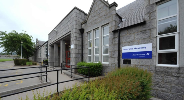 Inverurie Acdemy Entrance